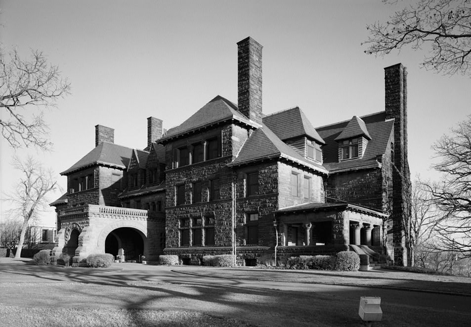 House of James J. Hill, 240 Summit Avenue, St. Paul, Minnesota. General view of North (front) and West side elevations, looking Southeast. Source: Library of Congress, Prints and Photographs Division, Historic American Buildings Survey, reproduction number HABS MINN,62-SAIPA,15-10.[1] License: "The records in HABS/HAER were created for the U.S. Government and are considered to be in the public domain."[2]